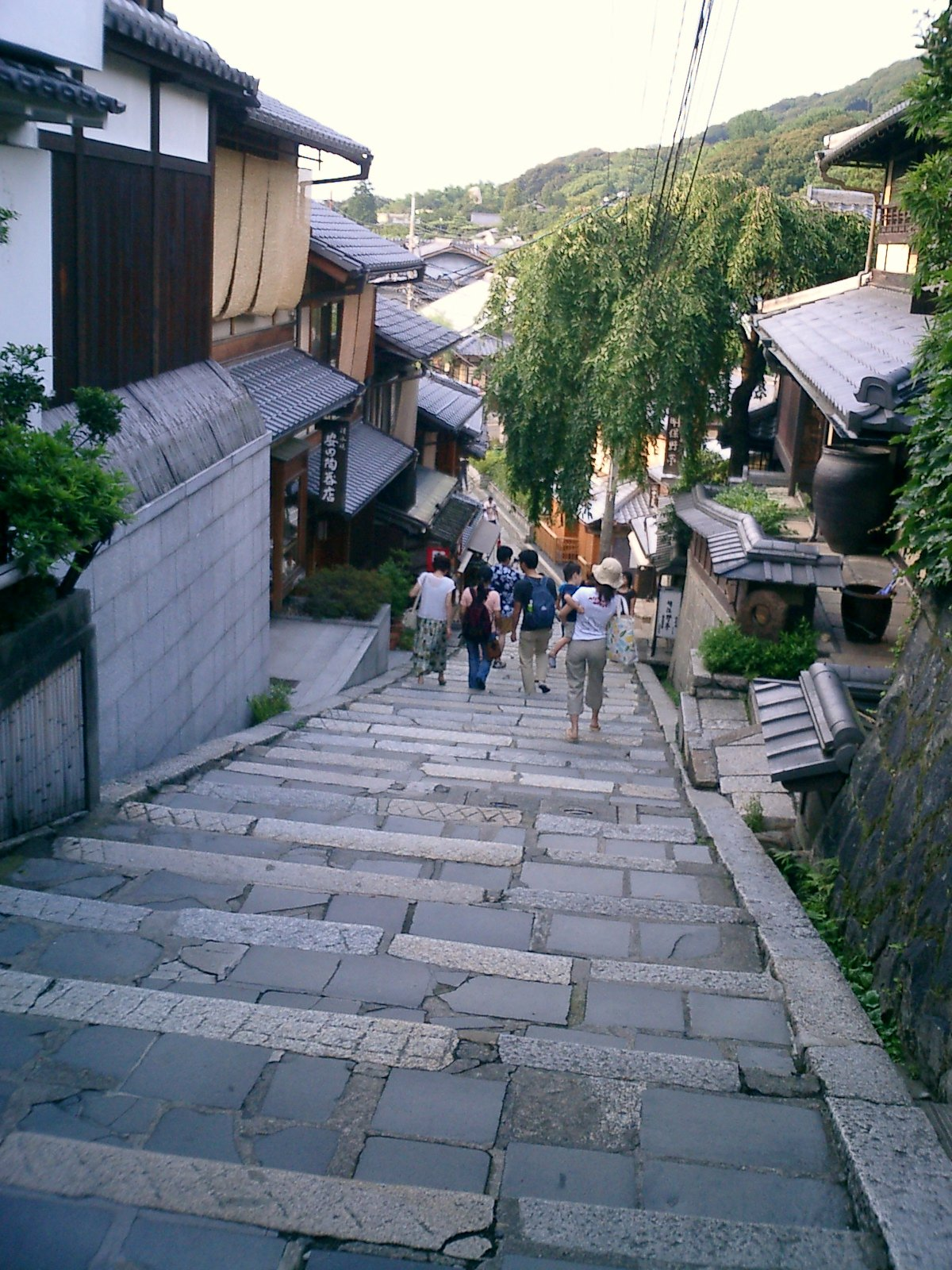 stone stairway